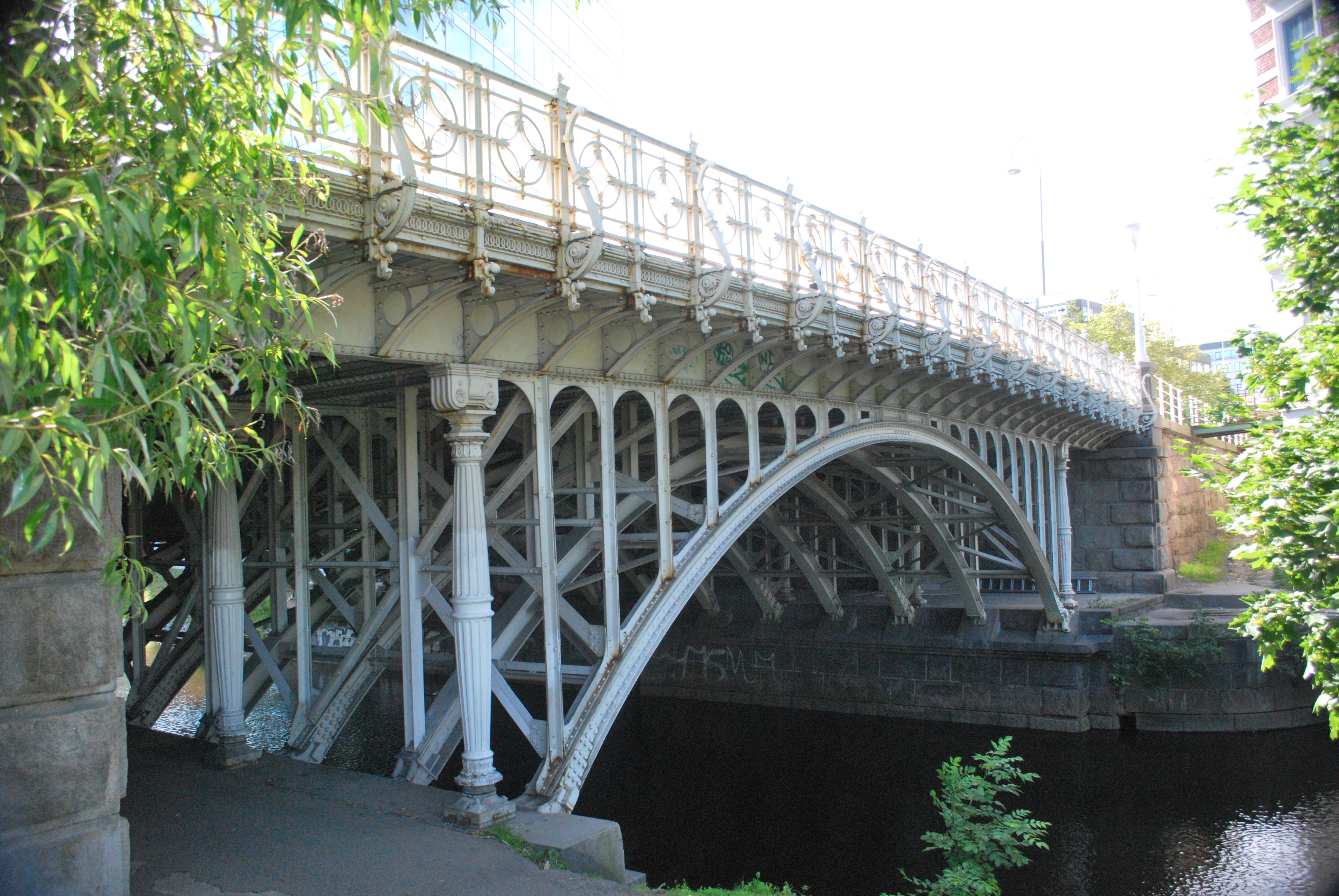 Hausmanns bridge, Grønland, Oslo, north side